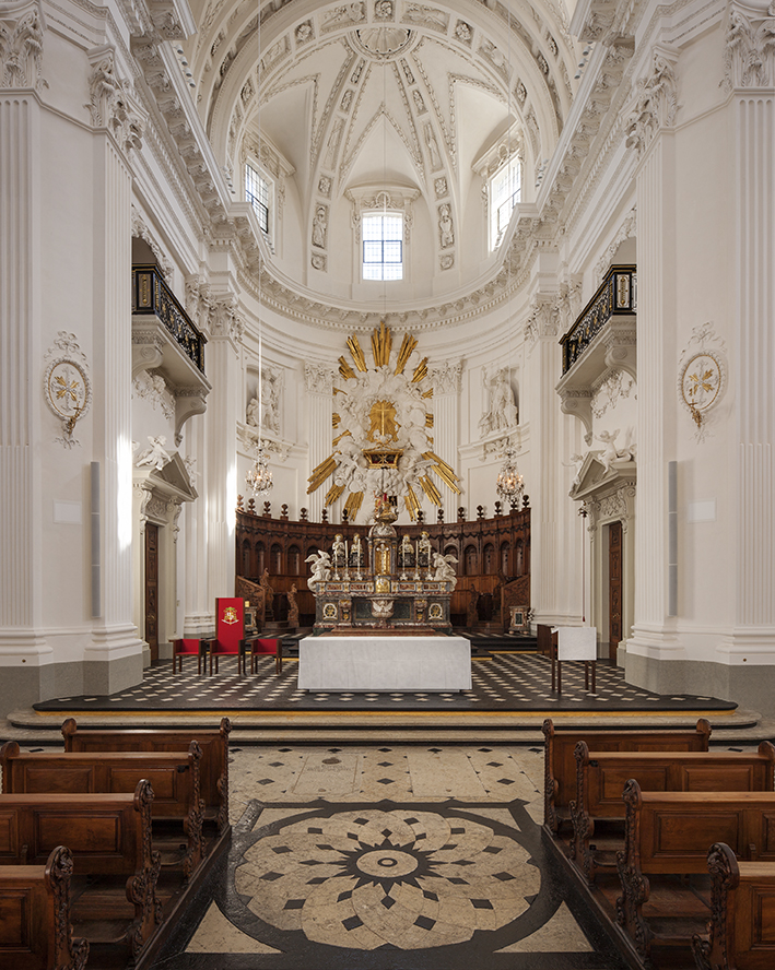 Inside view of the newly renovated St.-Ursen-Kathedrale in Solothurn in 2012. The quire was redesigned by the artistic team of Judith Albert, Ueli Brauen, Gery Hofer and Doris Wälchli.